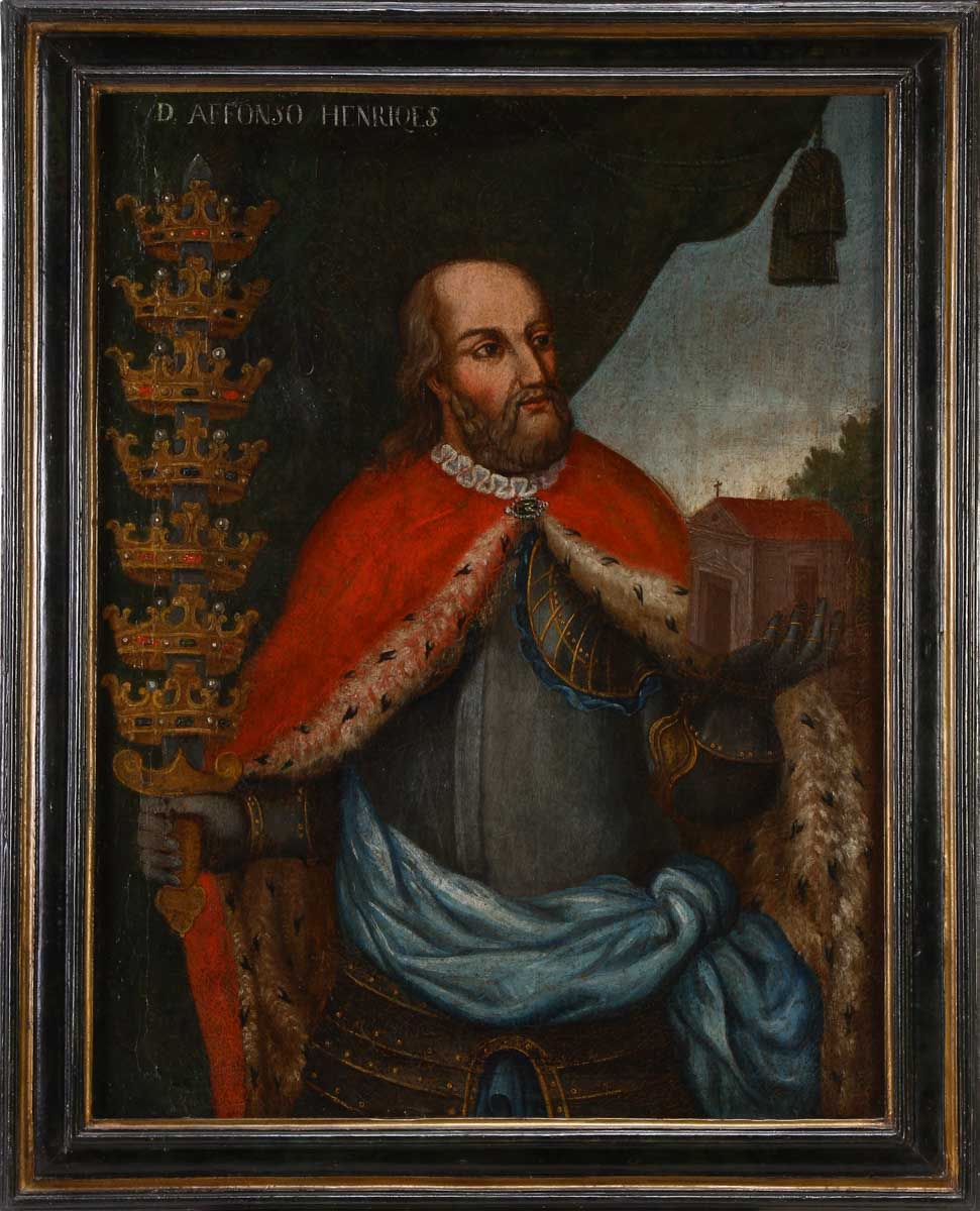 Afonso I of Portugal